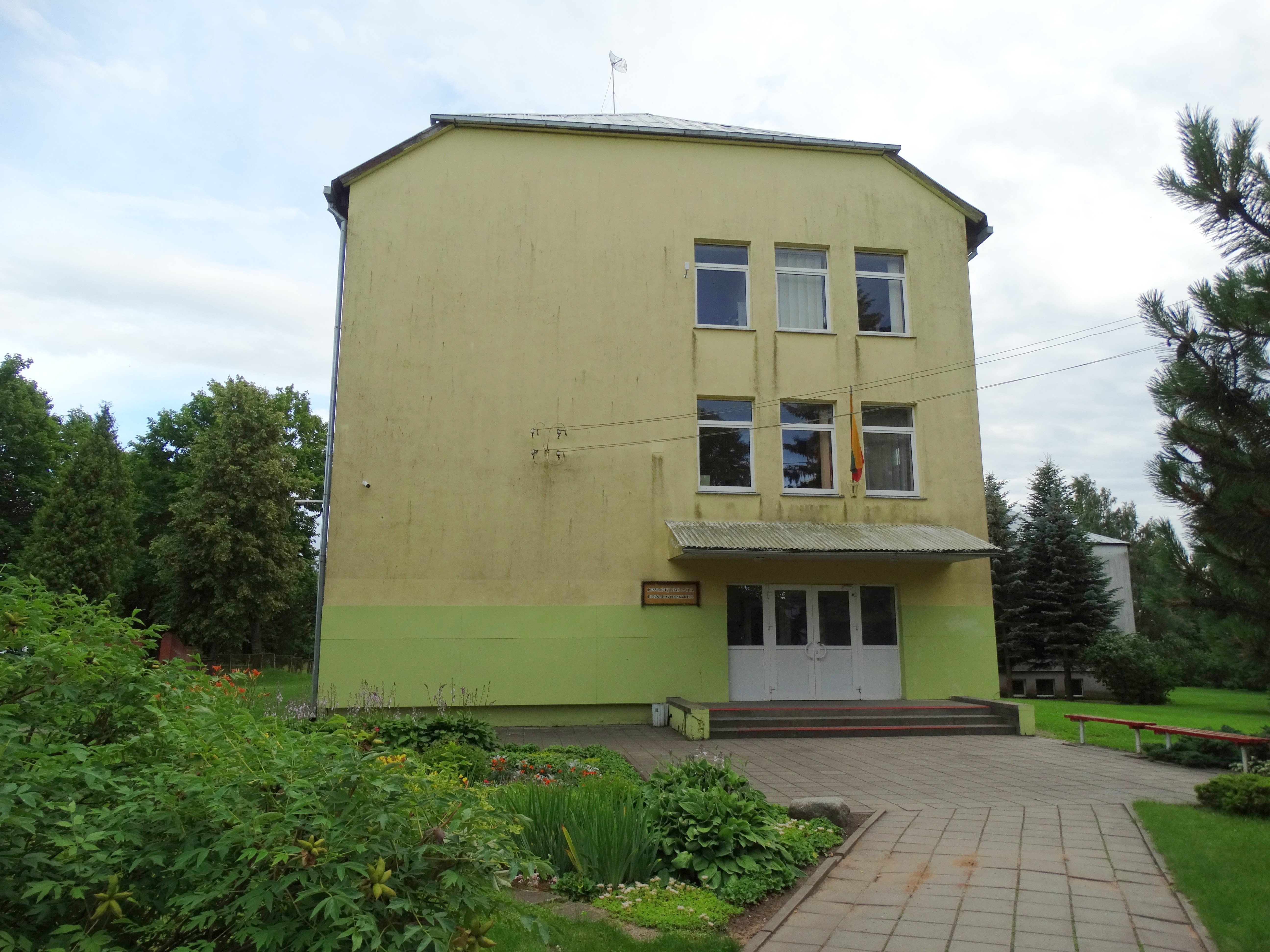 School, Pernarava, Kėdainiai District, Lithuania